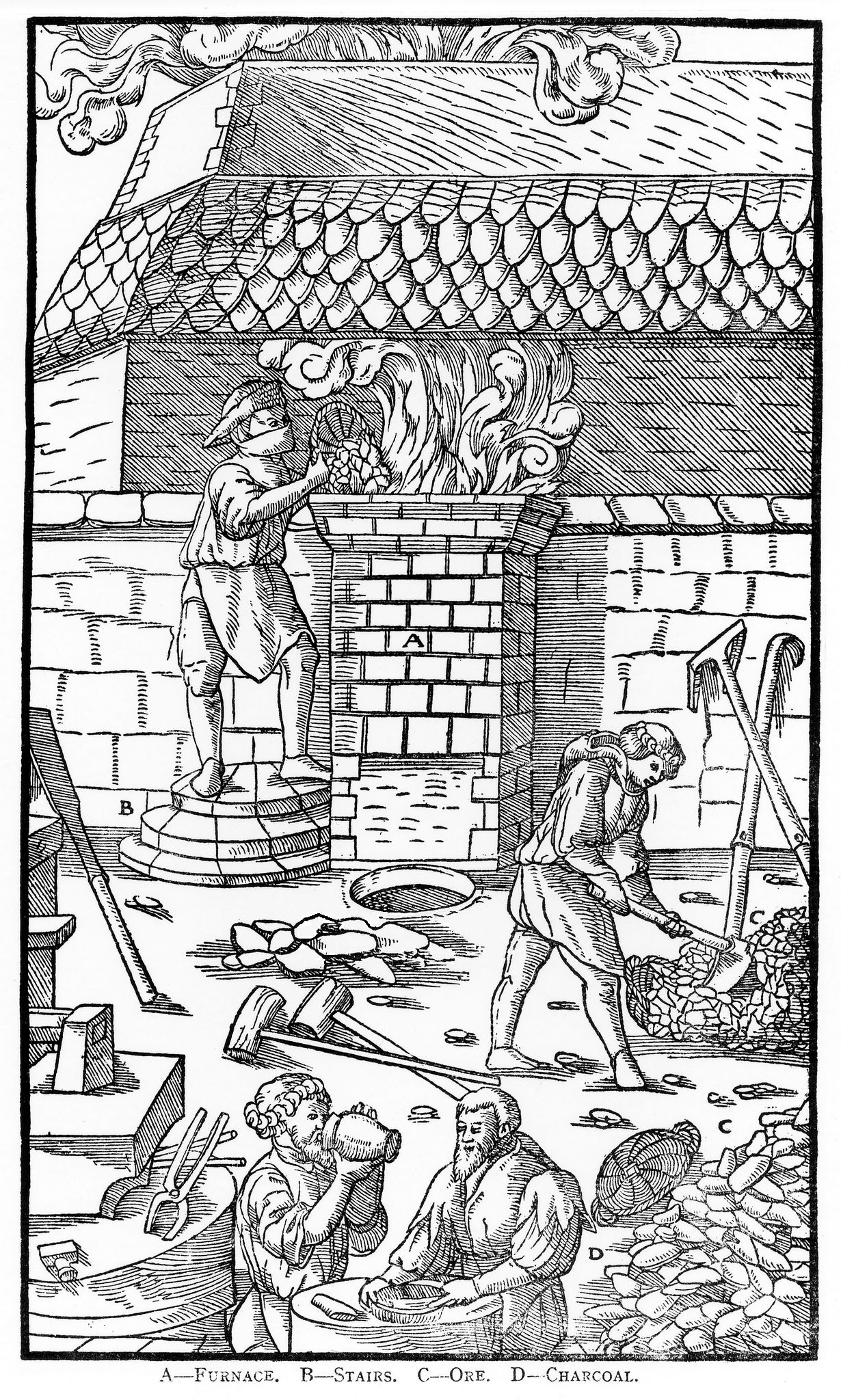 Plate from Agricola's 1556 book on mining, published posthumously since the woodcuts had to be finished. Descriptive text runs from here to here